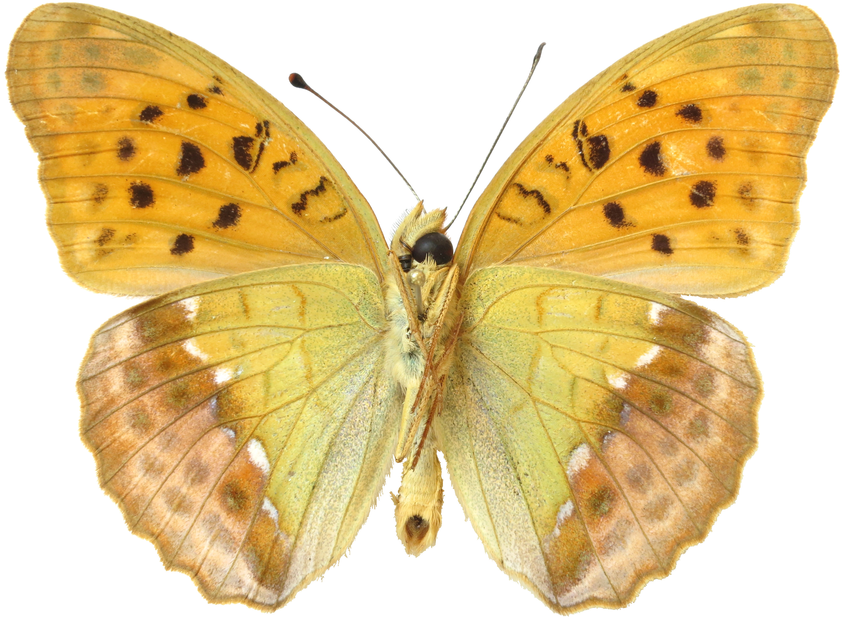 Argyronome ruslana male, ventral side from Barabash, Khasansky district, Primorsky Kraj, Russia